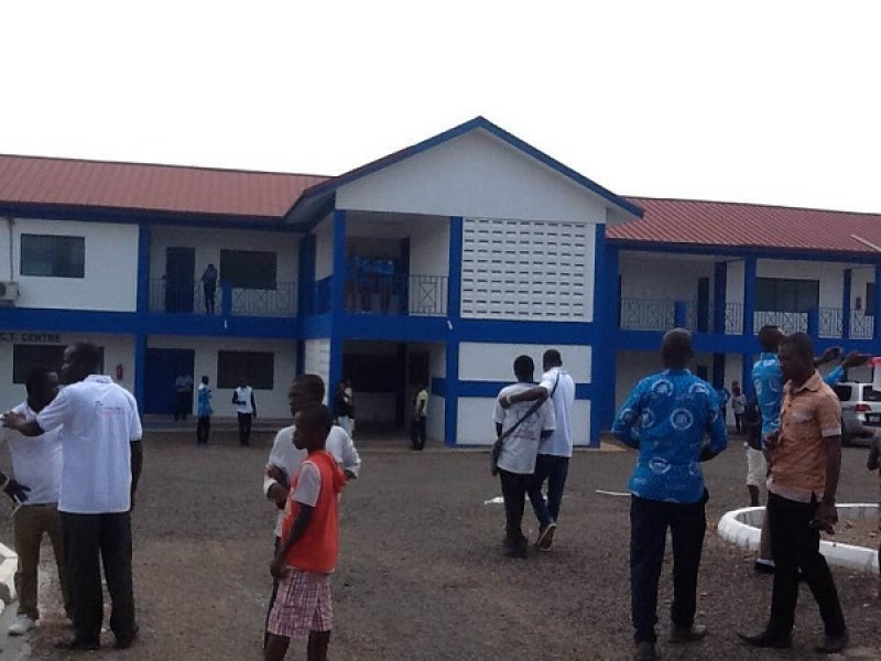 The front view of the administration block of Nkoranman SHS